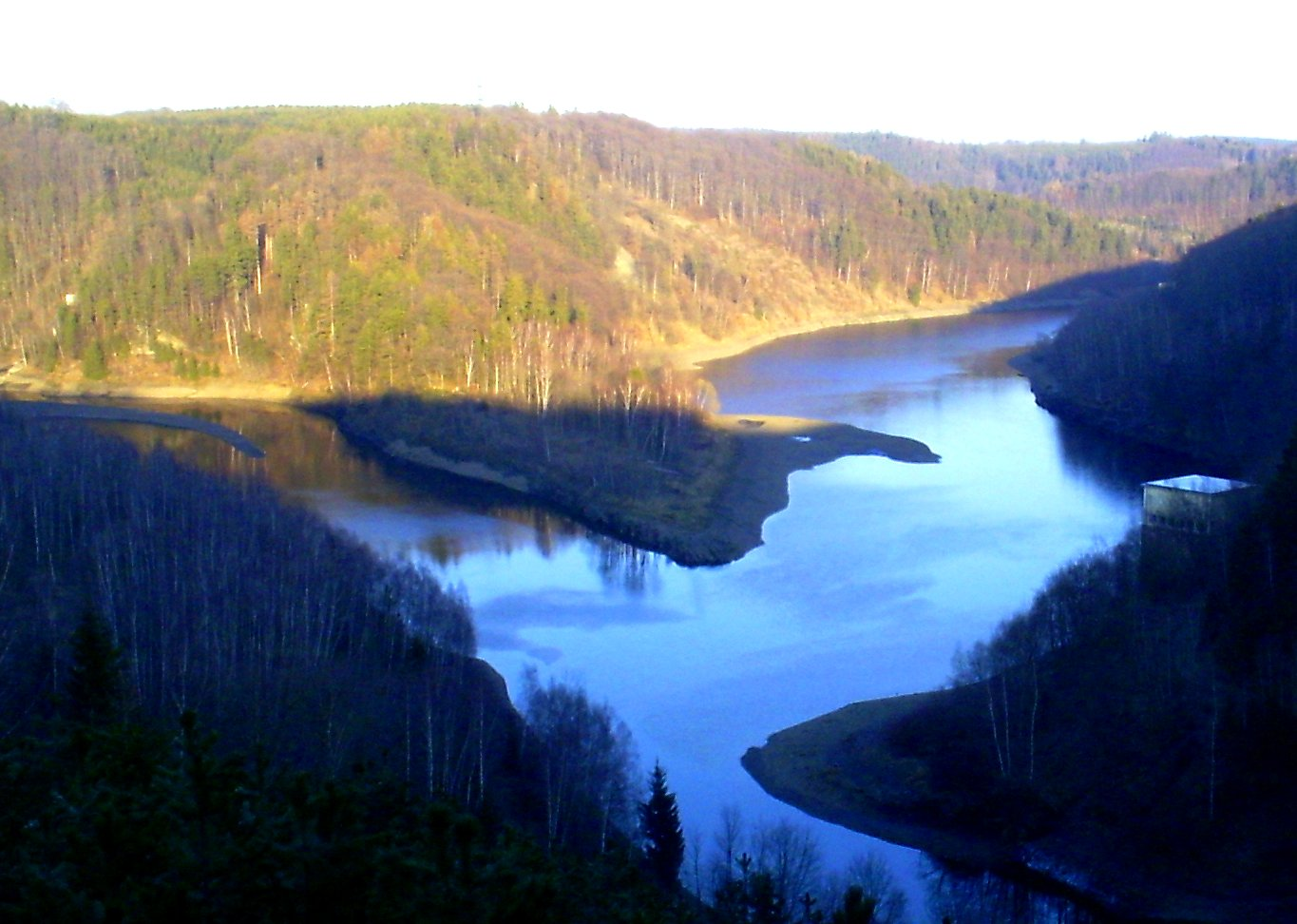 View from the Rappbode Dam